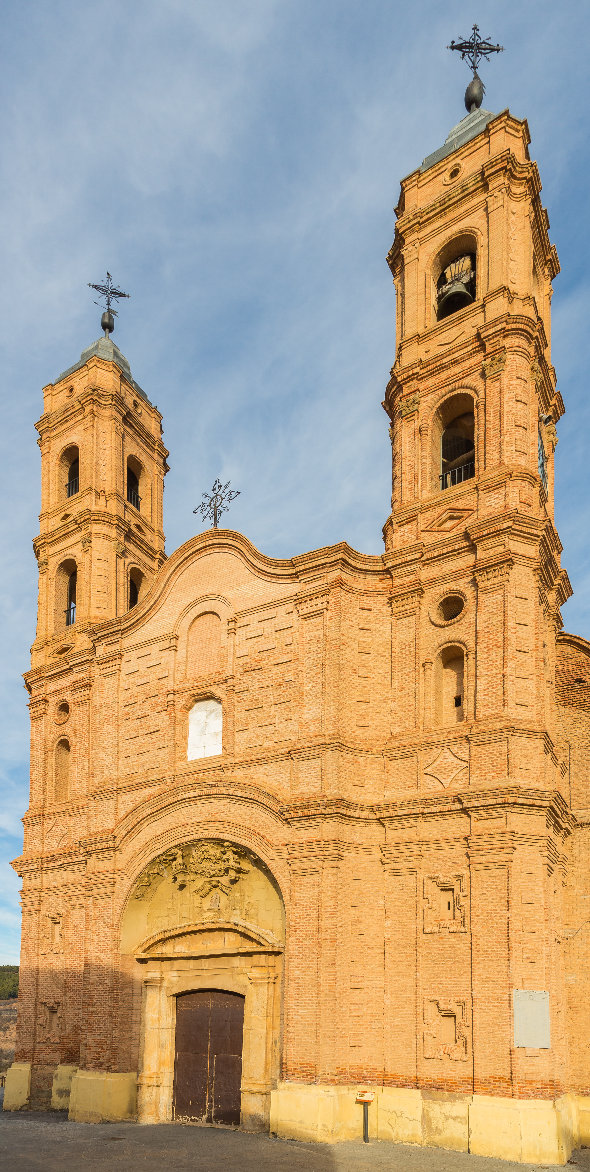 Church of the Assumption, Munébrega, Zaragoza, Spain